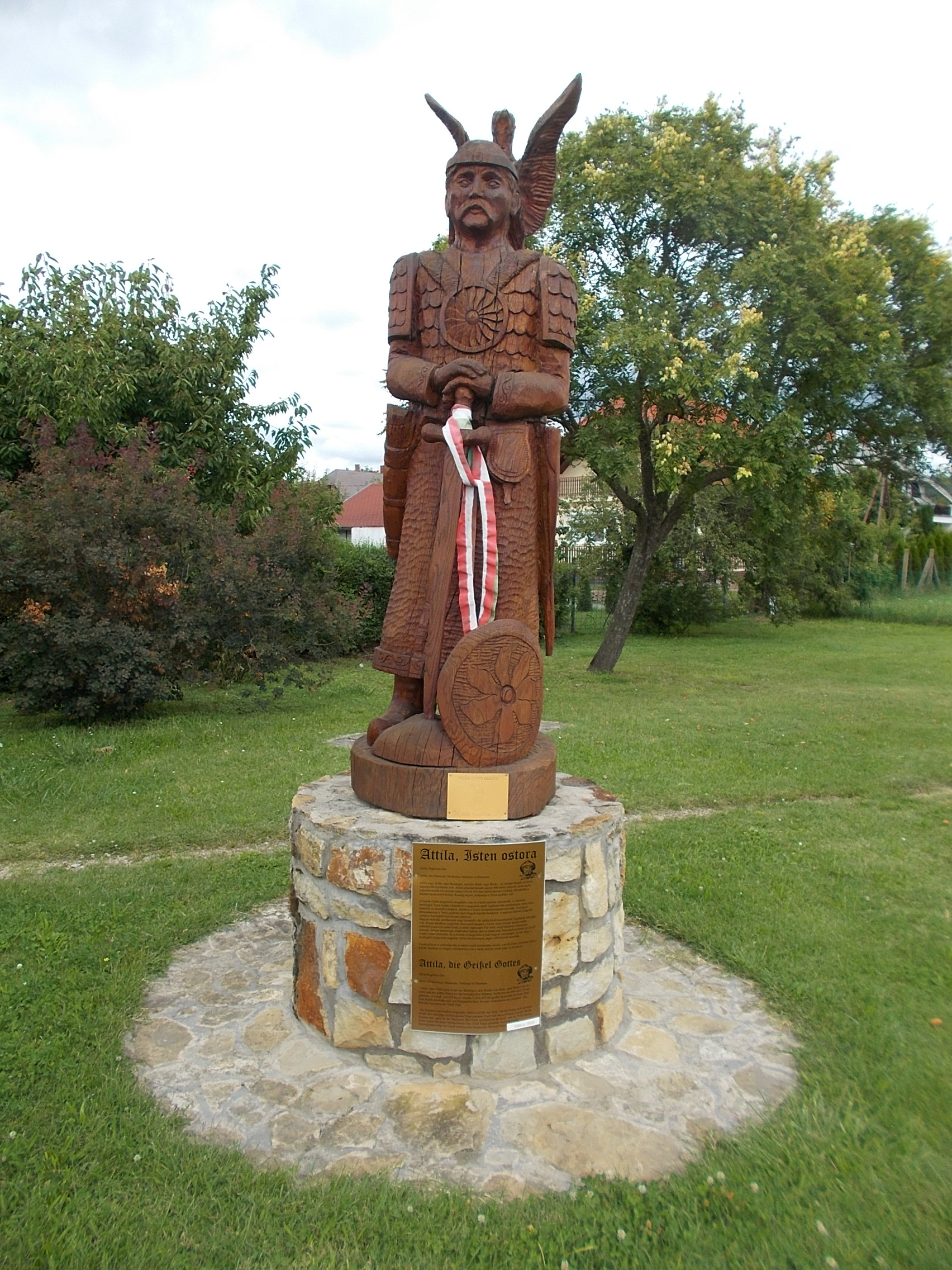 Attila . - Route 71, Gyenesdiás, Zala County, Hungary.